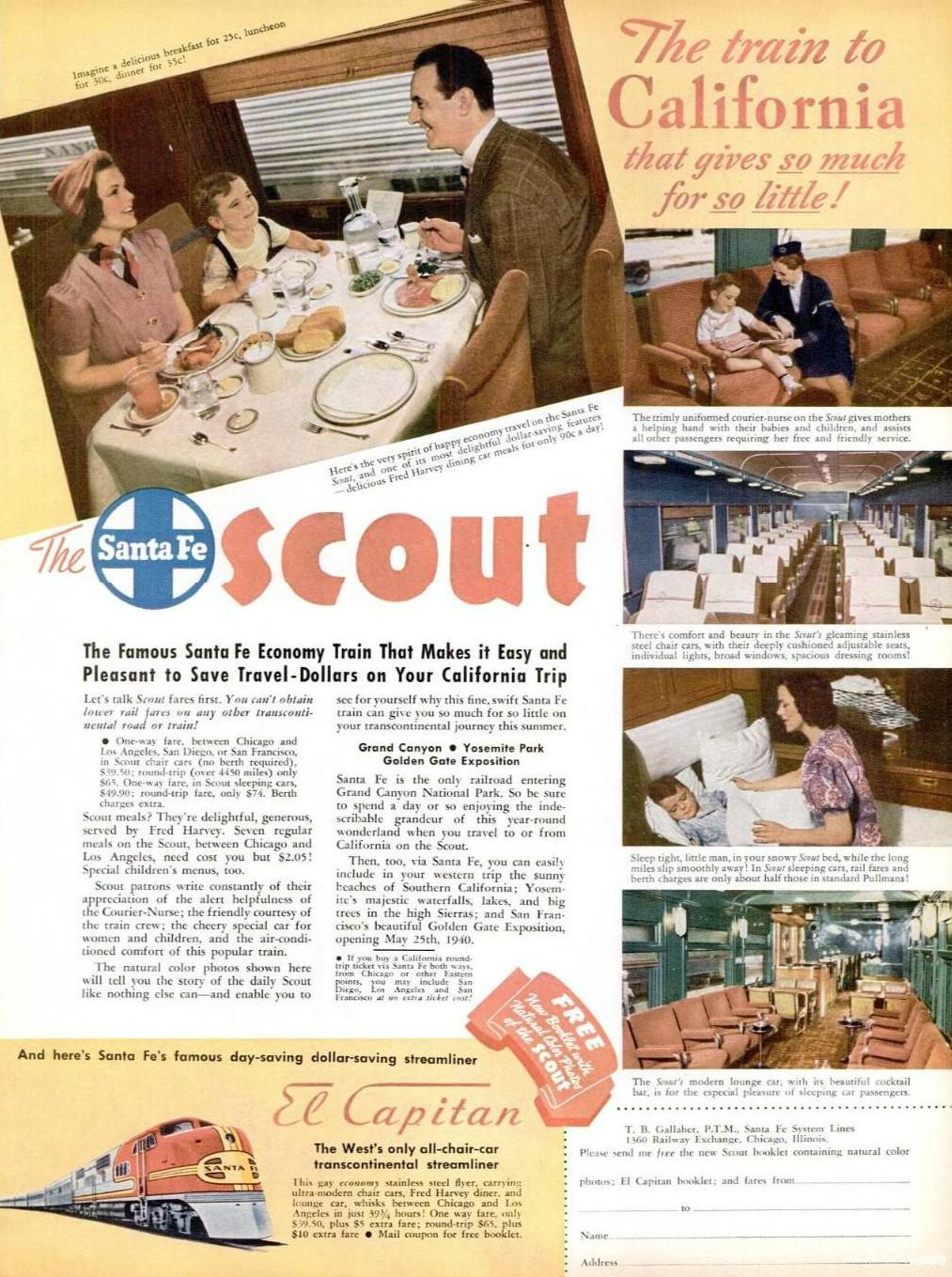 Advertisement for the Atcheson Topeka & Santa Fe railroad train "The Scout". From Life Magazine, April 1940.